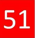 Unit Flash of the 1st Polish Armoured Regiment in WWII